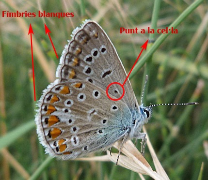 Near Tàrrega, Lleida, Catalonia.